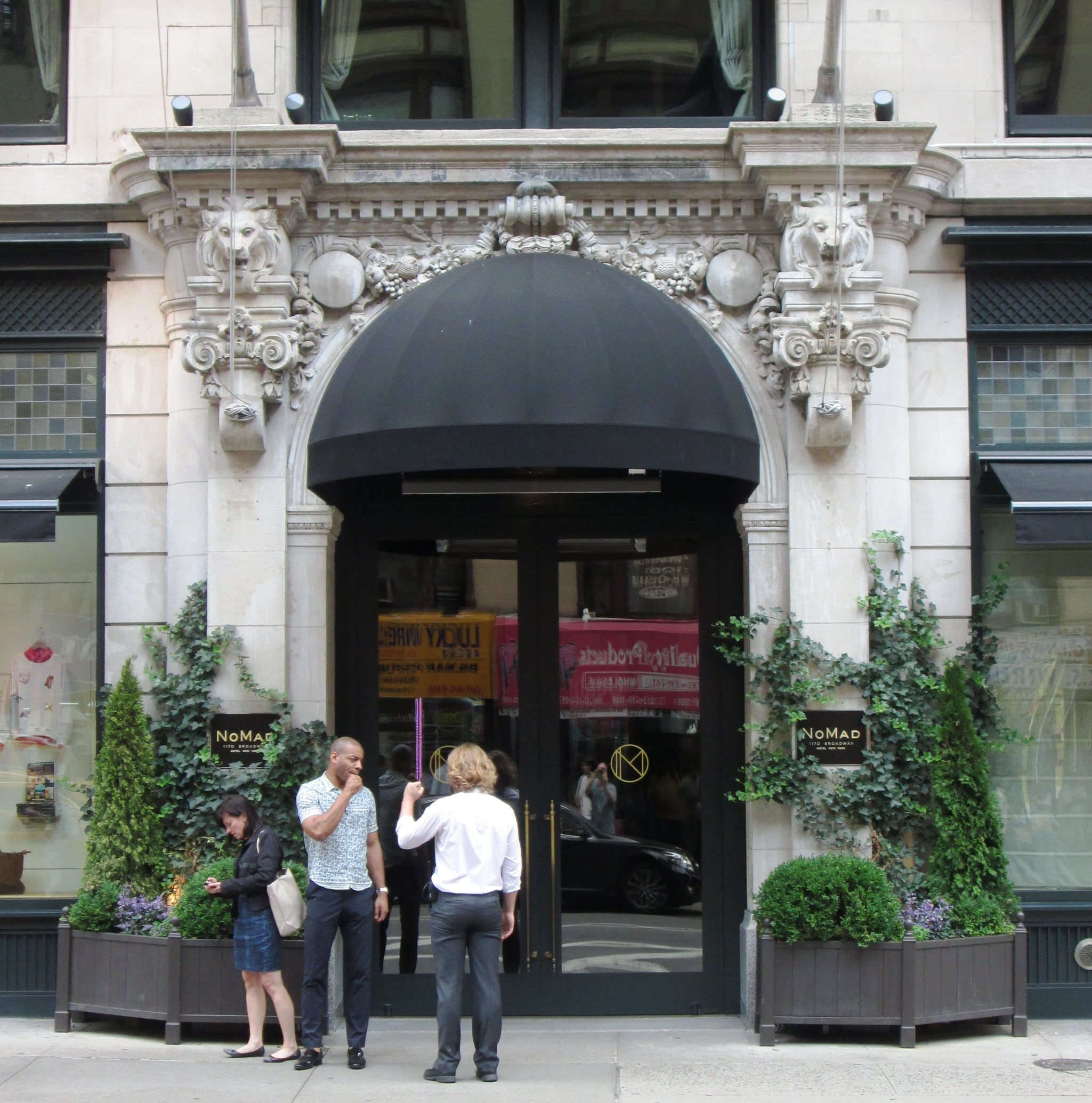 The building which is currently the NoMad Hotel at 1170 Broadway (1166-1172, also known as 14-18 West 28th Street) between West 27th & 28th Streets in the NoMad neighborhood of Manhattan, New York City was built in 1902-03 as stores and offices, and was designed by Schickel & Ditmars in the Beaux Arts style. It is located within the Madison Square North Historic District. (Source: "NYCLPC Madison Square North Historic District Designation Report")